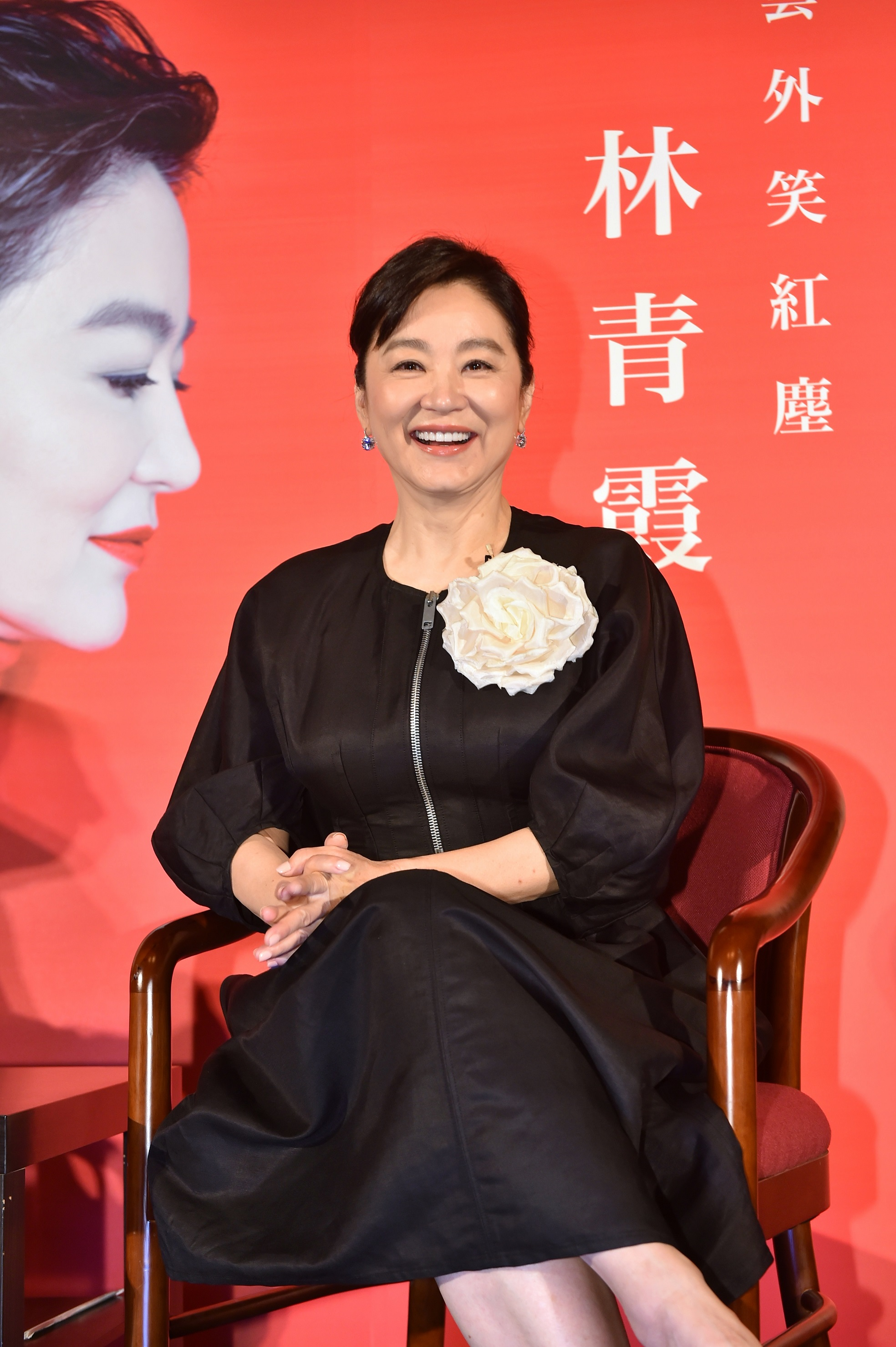 Brigitte Lin